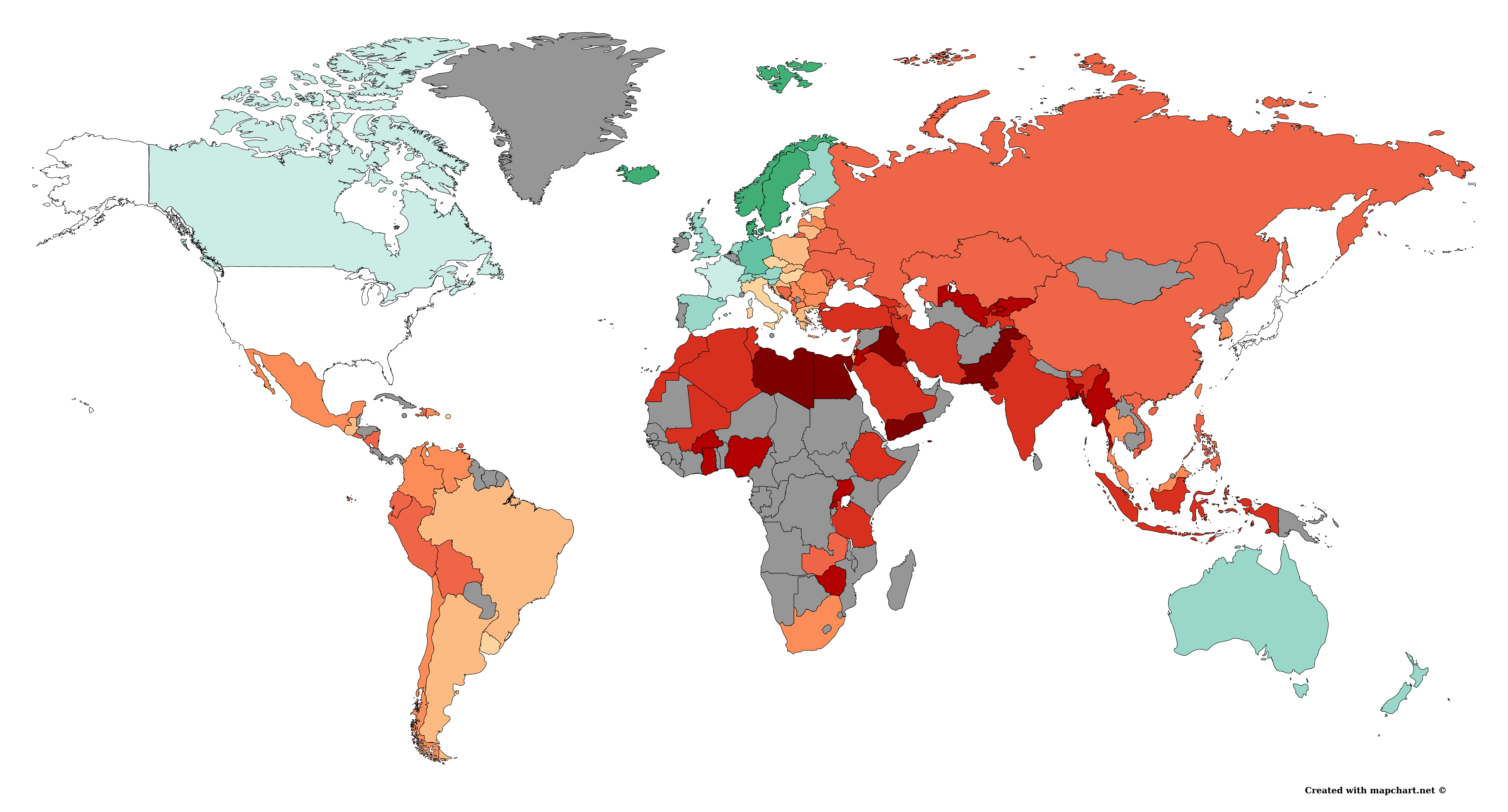 Countries colored in red have cultures with a lower level of emancipative values than Japanese culture. Countries colored in green have cultures with a higher level of emancipative values than Japanese culture. The concept of emancipative values was proposed by the German political scientist Christian Welzel in his 2013 book called Freedom Rising: Human Empowerment and the Quest for Emancipation. This is a version of File:Difference from Japan on the emancipative values index.png. The difference is that this version has no inner legend.